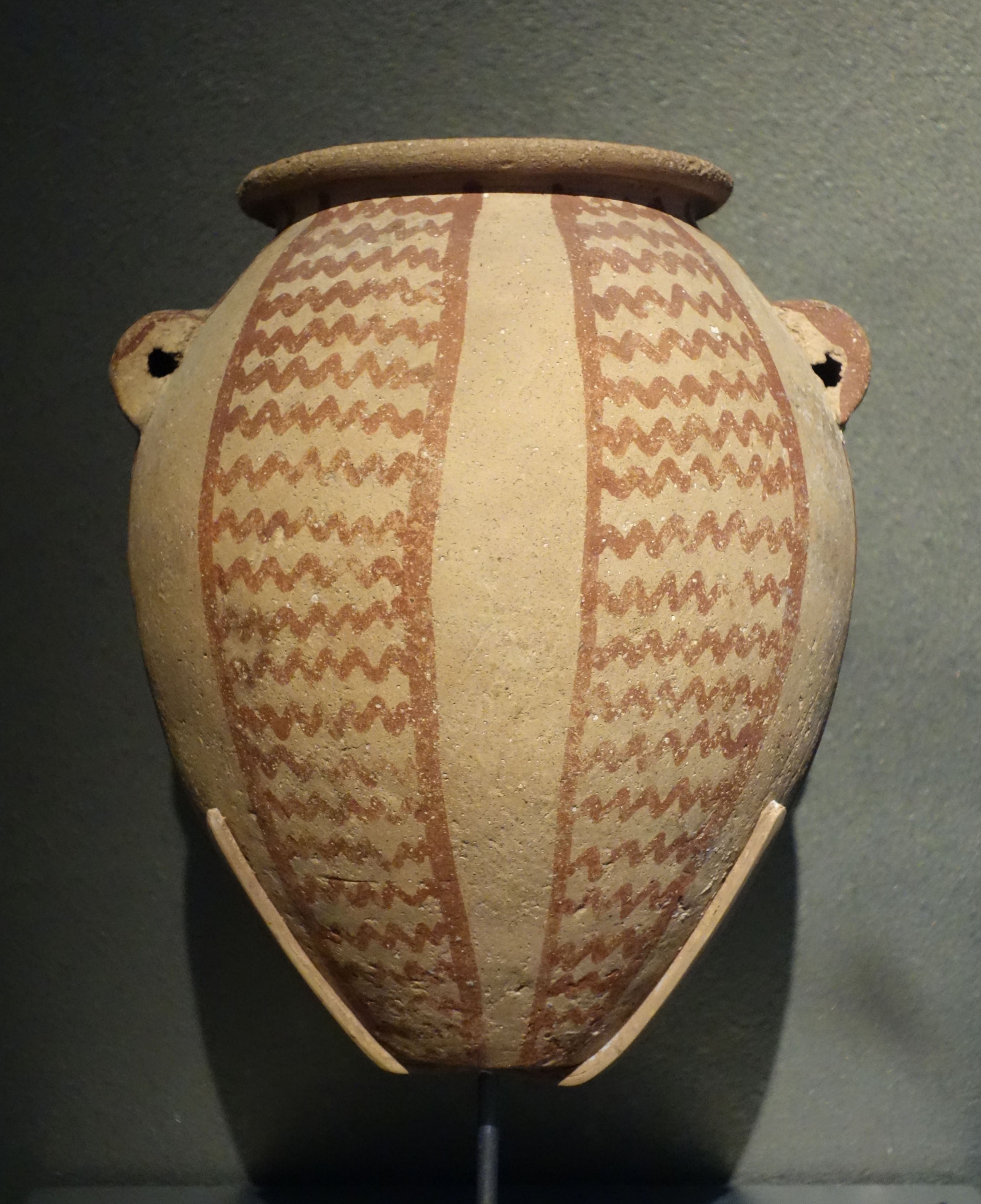 Exhibit in the Brooklyn Museum - Brooklyn, New York, USA. This artwork is in the public domain because the artist died more than 70 years ago.